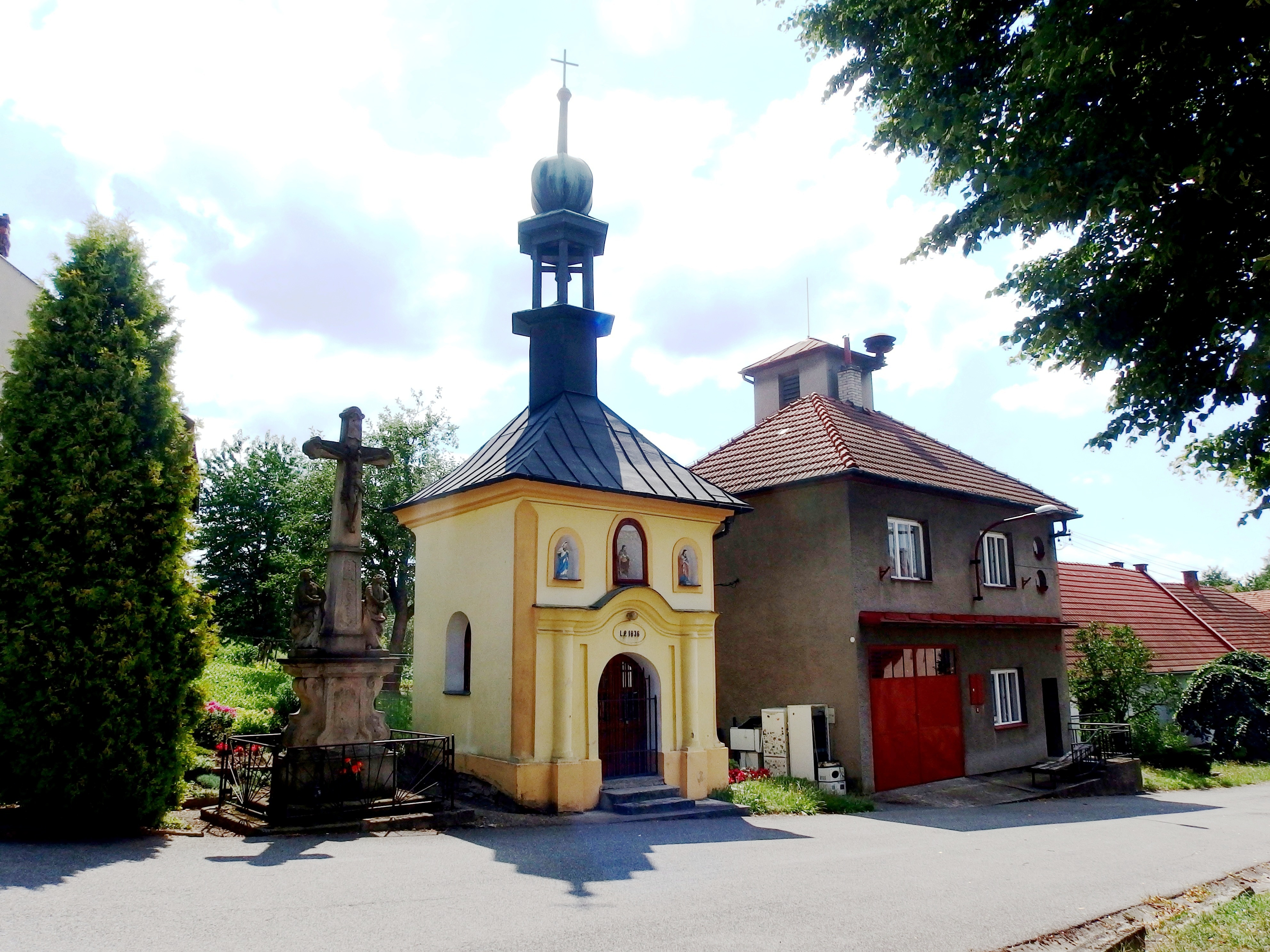 Kelč, Vsetín District, Czech Republic, part Komárovice.